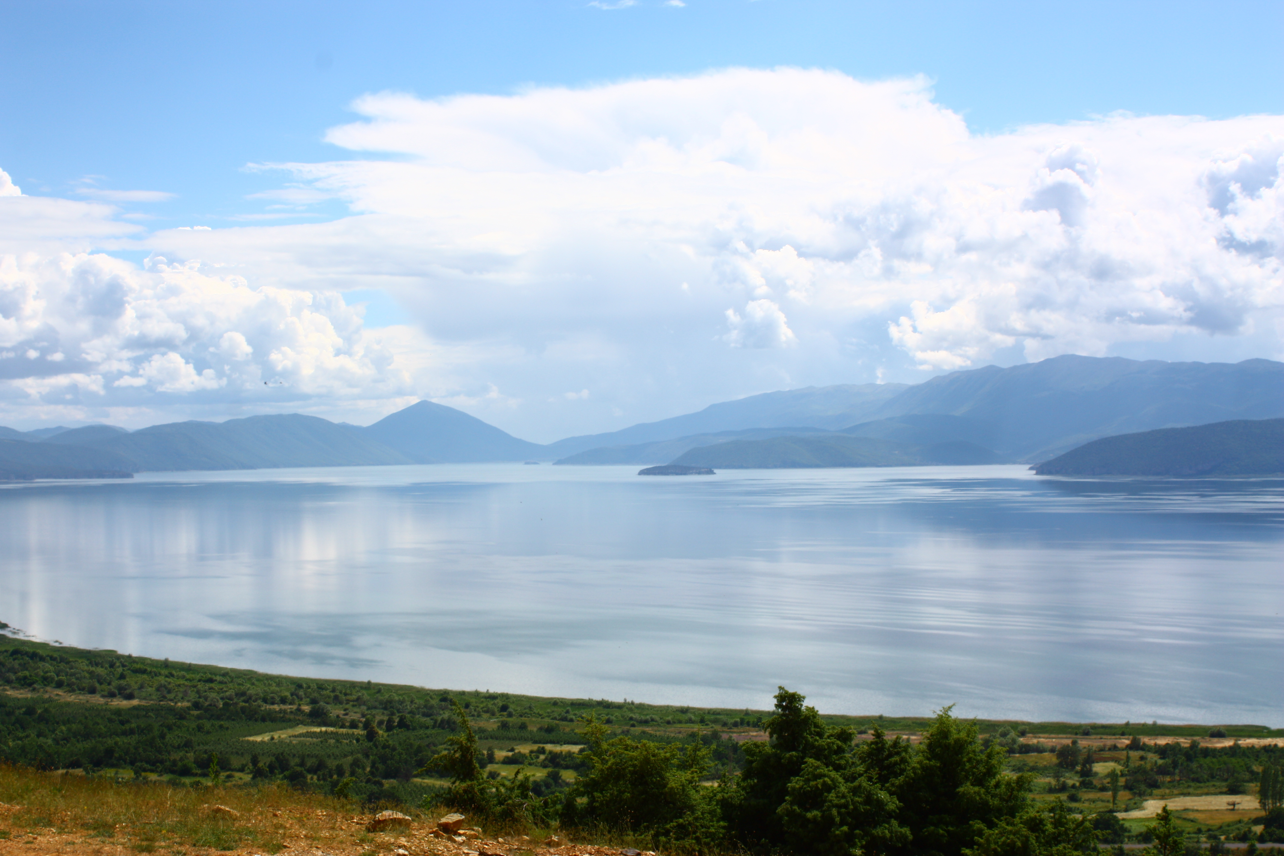 Prespa Lake, Macedonia. View from Slivnica Monastery